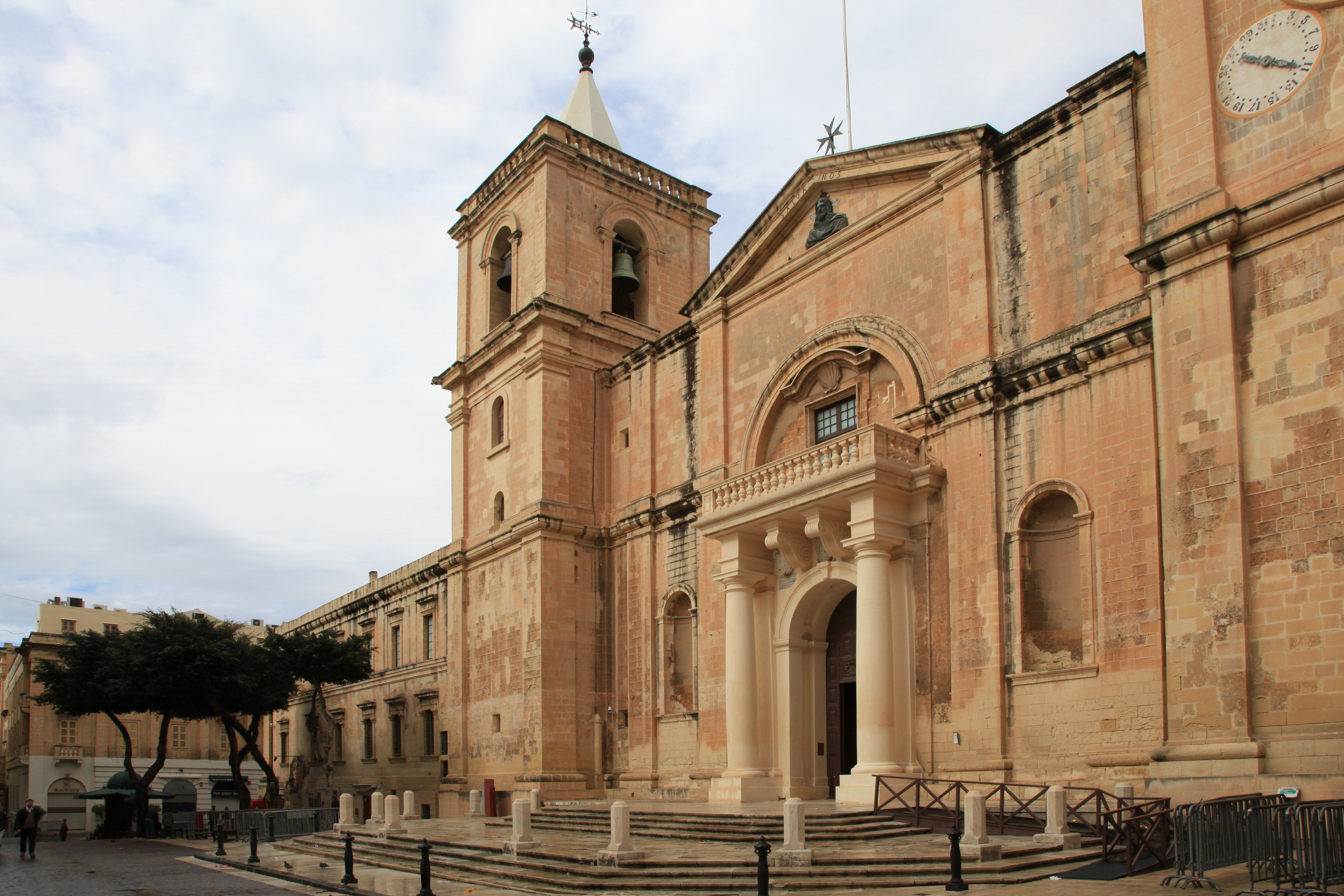 St. John's Co-Cathedral at Misraħ San Ġwann in Valletta, Malta